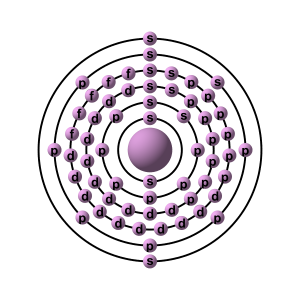 This is a part of a series of drawings of the individual elements electron configuration: Each diagram shows the electron shells with the number of electrons, and furthermore, each electron bears a letter "s", "p", "d" or "f" which shows the orbital electrons belong. This drawing depicts electron configuration in a atom: The big ball in the middle depicts the nucleus, and the little balls are electrons. The color on the big ball in the middle is green for non-metals, blue for the noble gases, violet for actinoids, purple pink for transition metals, red alkali metals, gray for "Other metals", yellow for halogens, orange for the alkaline earth metal arts and brown for half metals.